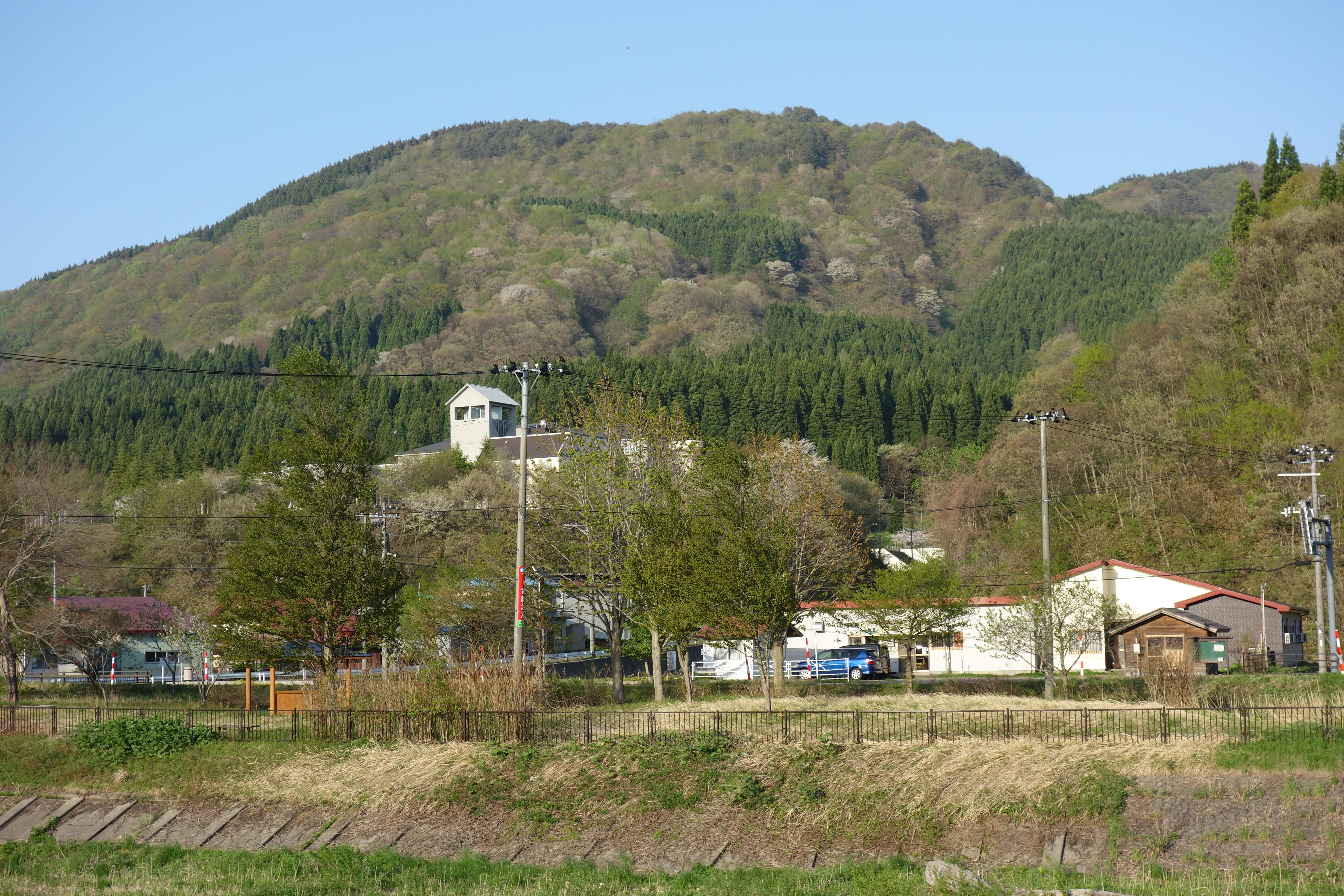 Takayama mountain in Fujisato Town, Akita Prefecture, Japan